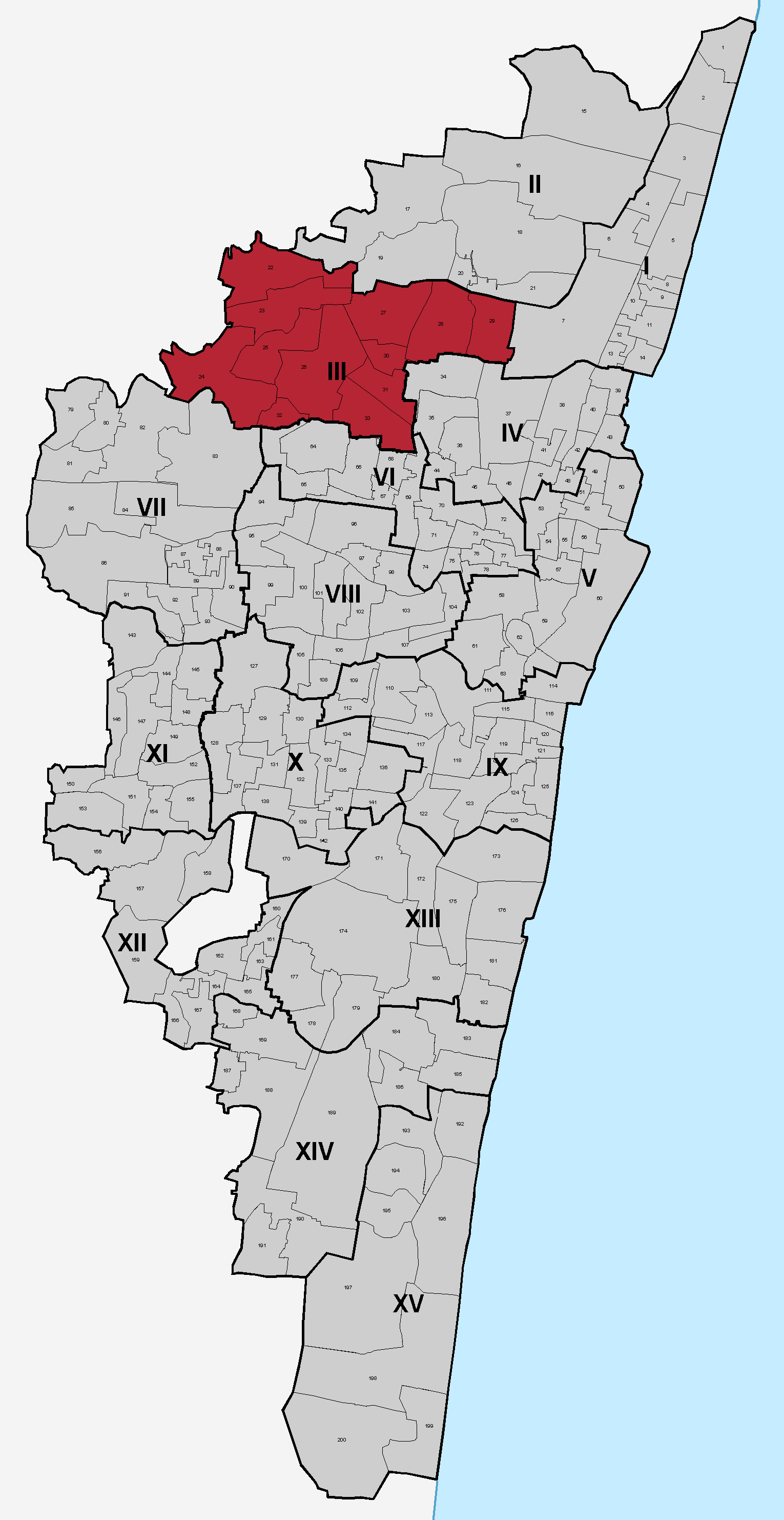 Location of Madhavaram zone in Chennai